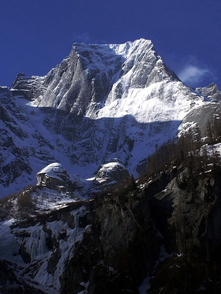 Piz Badile, Graubünden